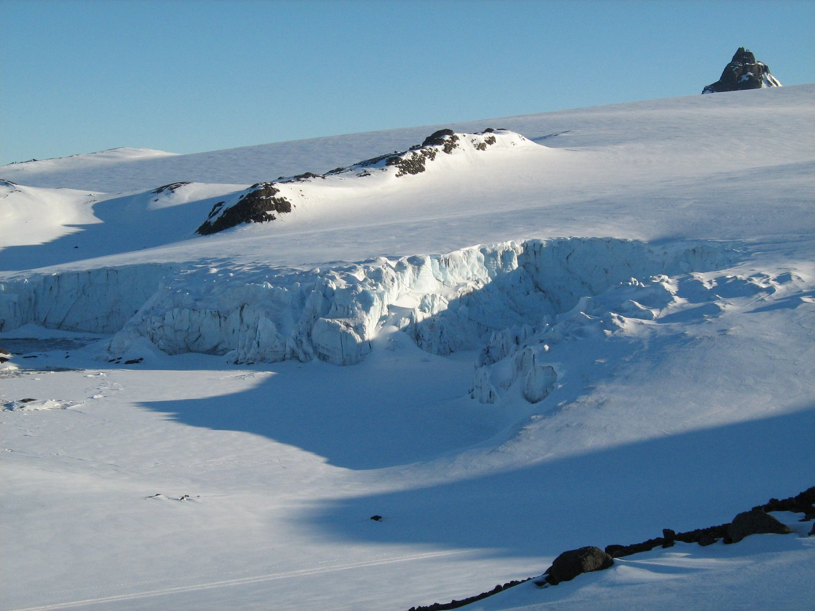 Ecology Glacier, King George Island